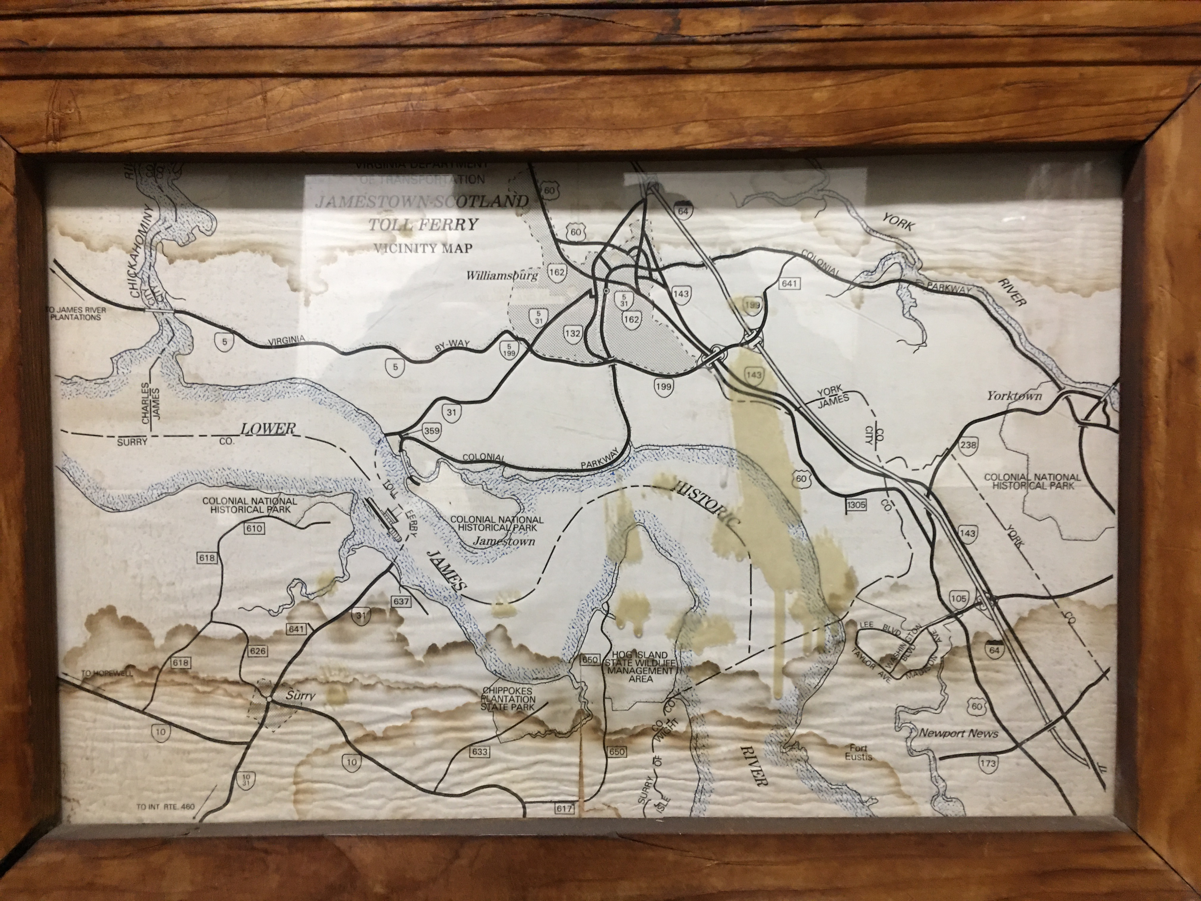 Undated map of the Jamestown-Scotland Ferry on the Surry boat.